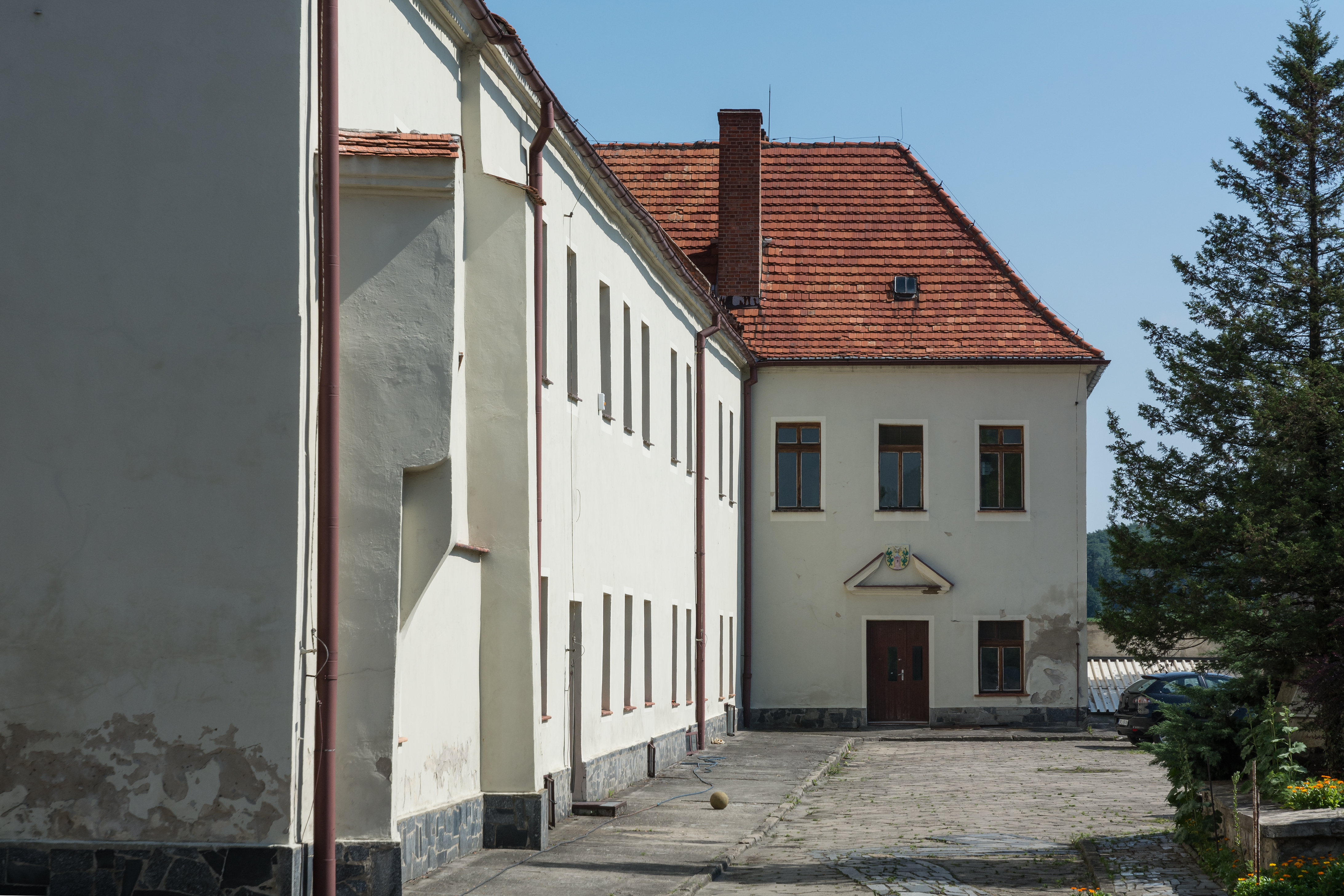 6 Królowej Jadwigi Street in Niemcza